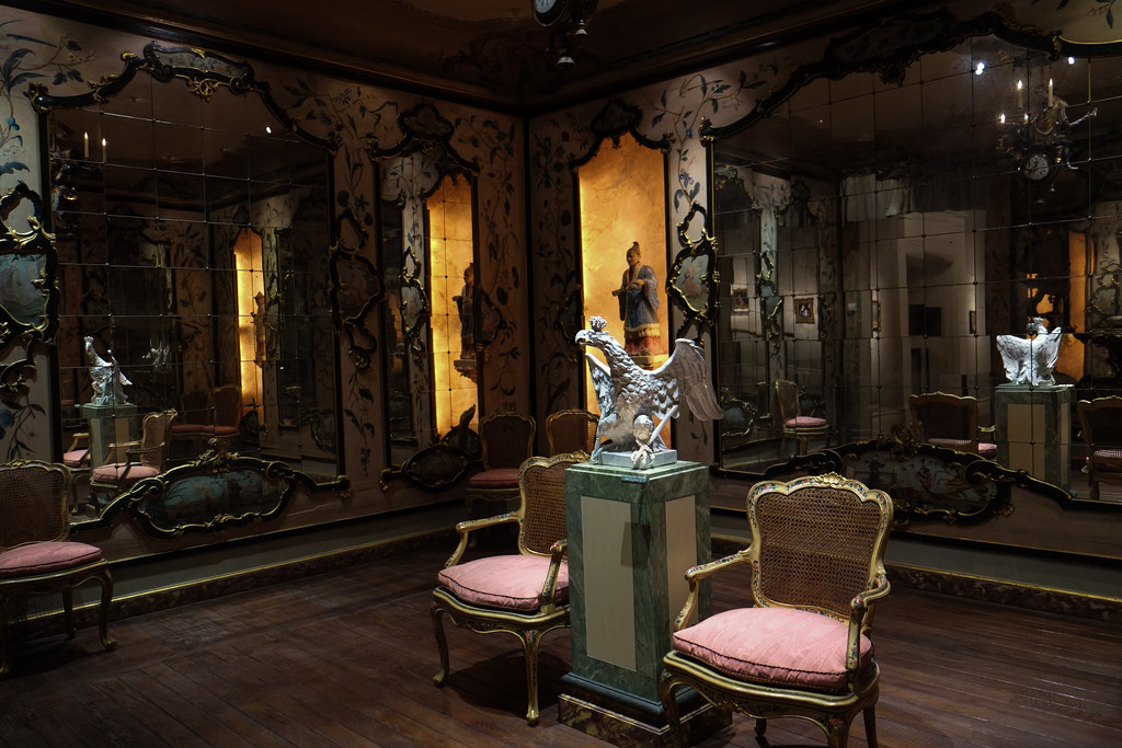 Israel Museum Interior